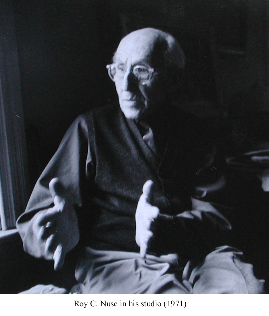 Roy Cleveland Nuse in his studio, 1971, photo by Robin Nuse.